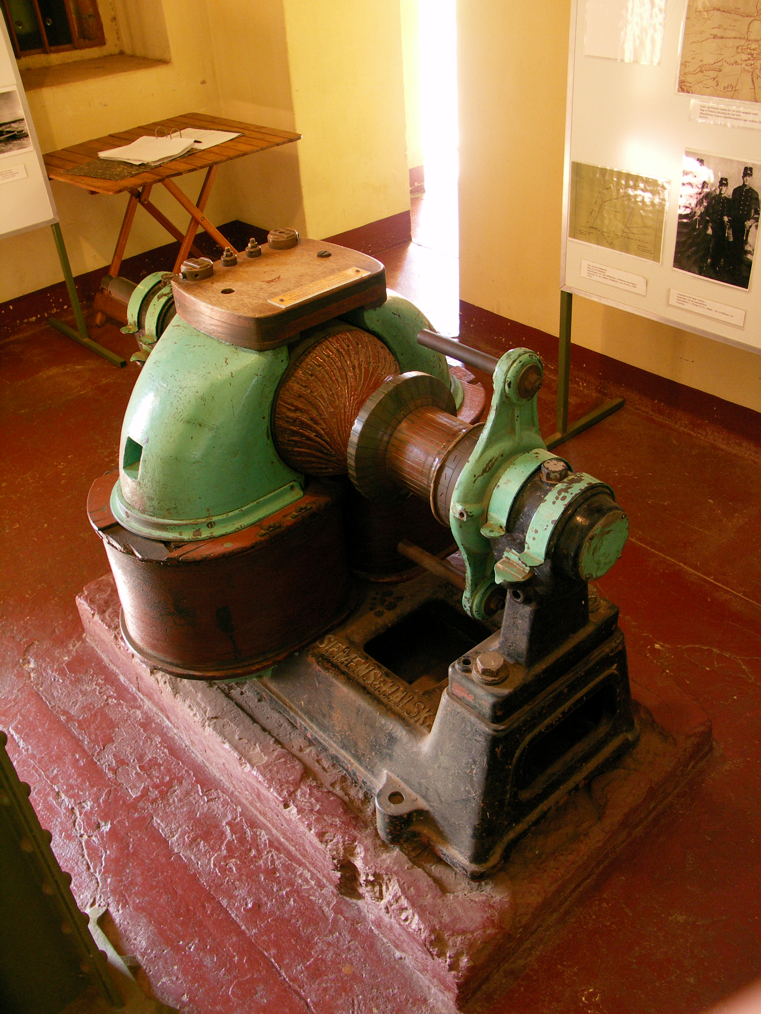 A Siemens & Halske LH8 electric generator. These were installed at Fort Klapperkop and Fort Schanskop outside Pretoria around 1897. This photo is from the one still housed in the museum at Fort Klapperkop.